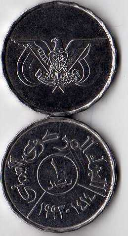 1 Yemeni rial coin minted in 1993